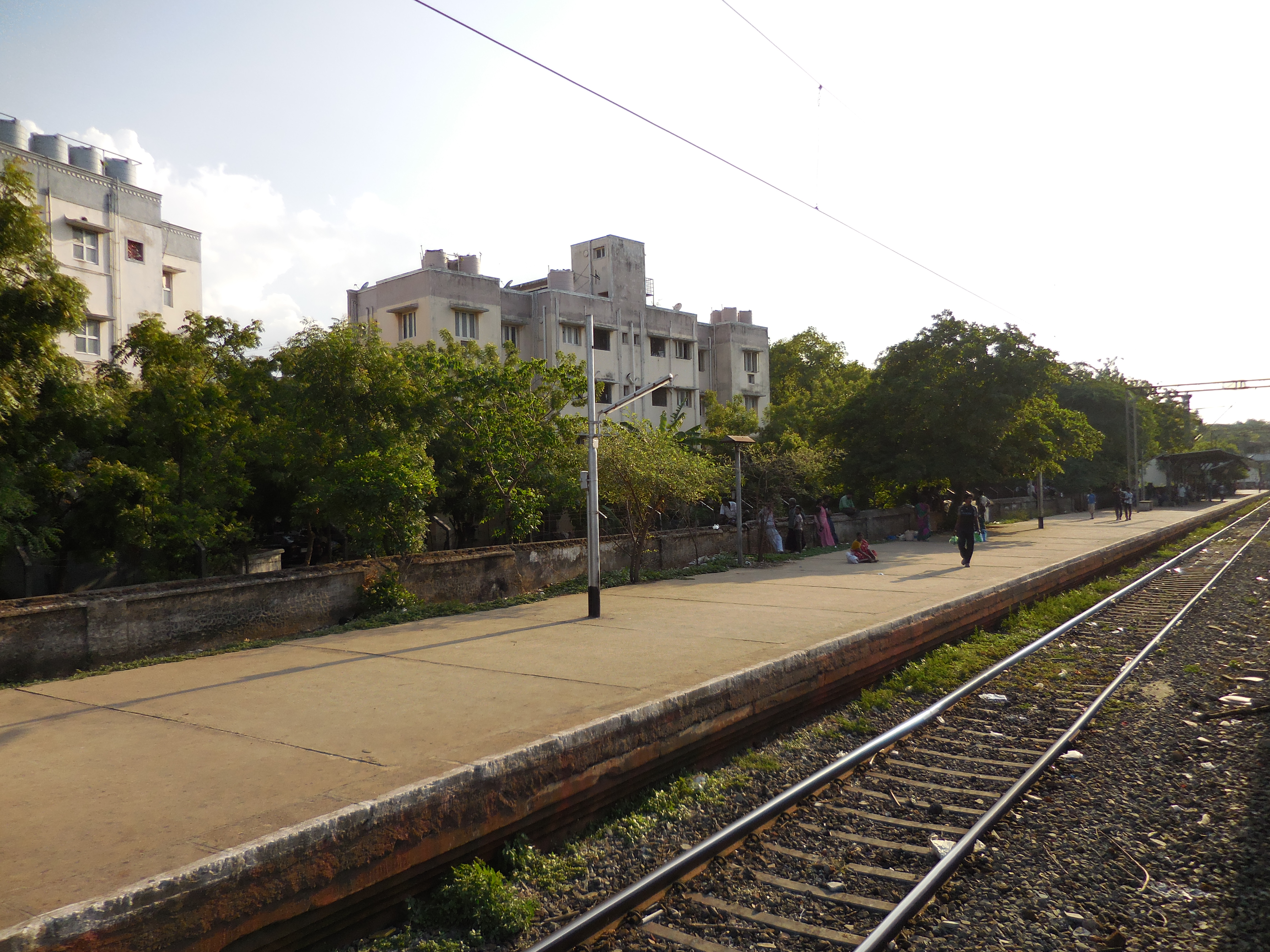 Western view of Washermanpet Railway Station, Chennai, taken on 6 July 2014 at 5:03 pm